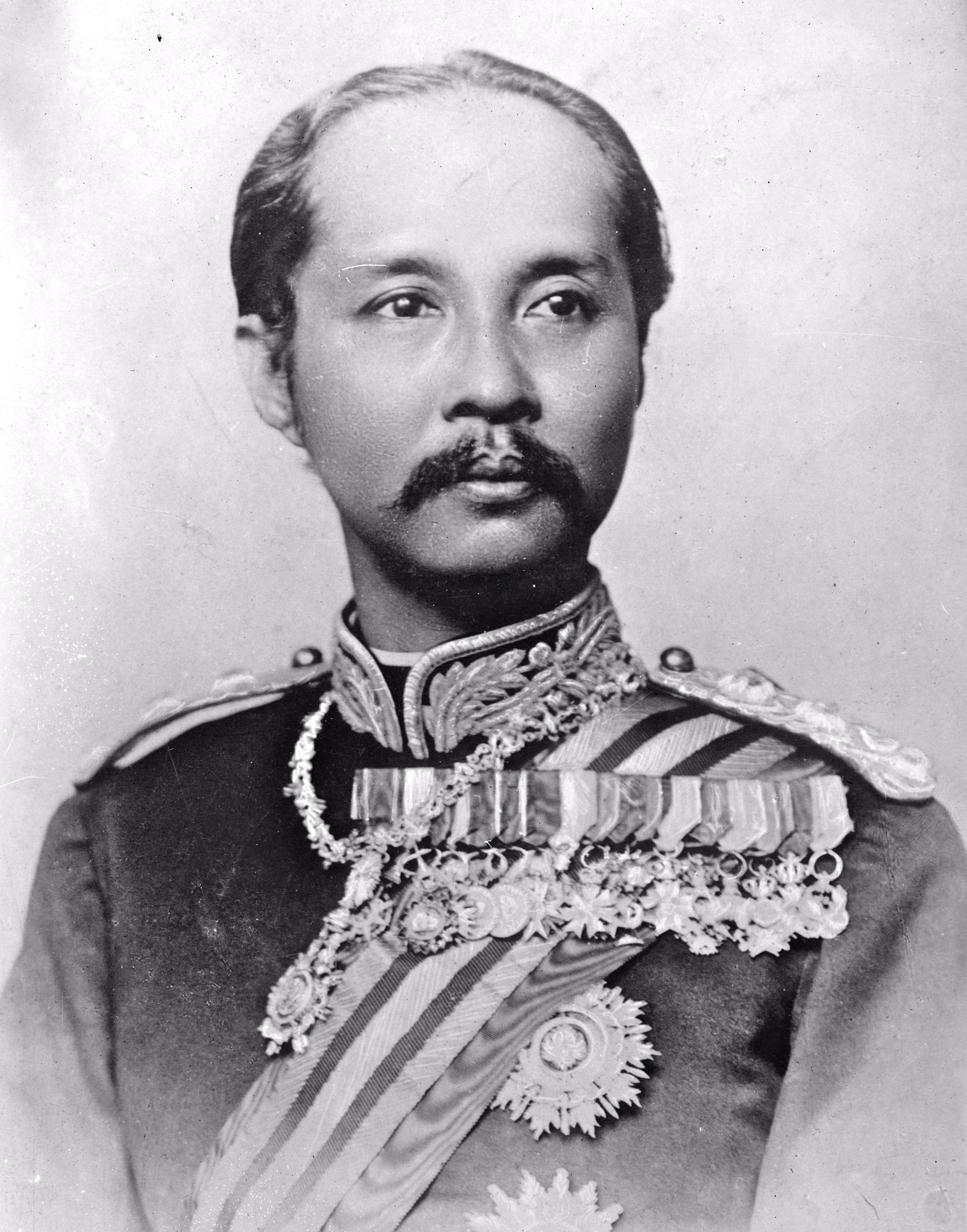 King Chulalongkorn or Rama V of Thailand. Cropped image downloaded from the source listed below.